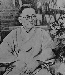 Yi Gwang-su, a Korean writer, poet, novelists, in 1937 Seoul